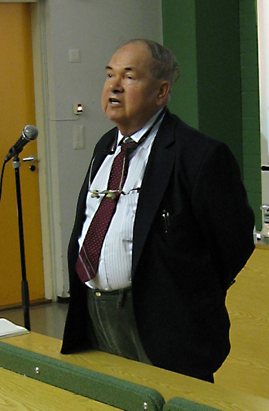 Abrikosov lecturing in Otaniemi, Finland, 2006.